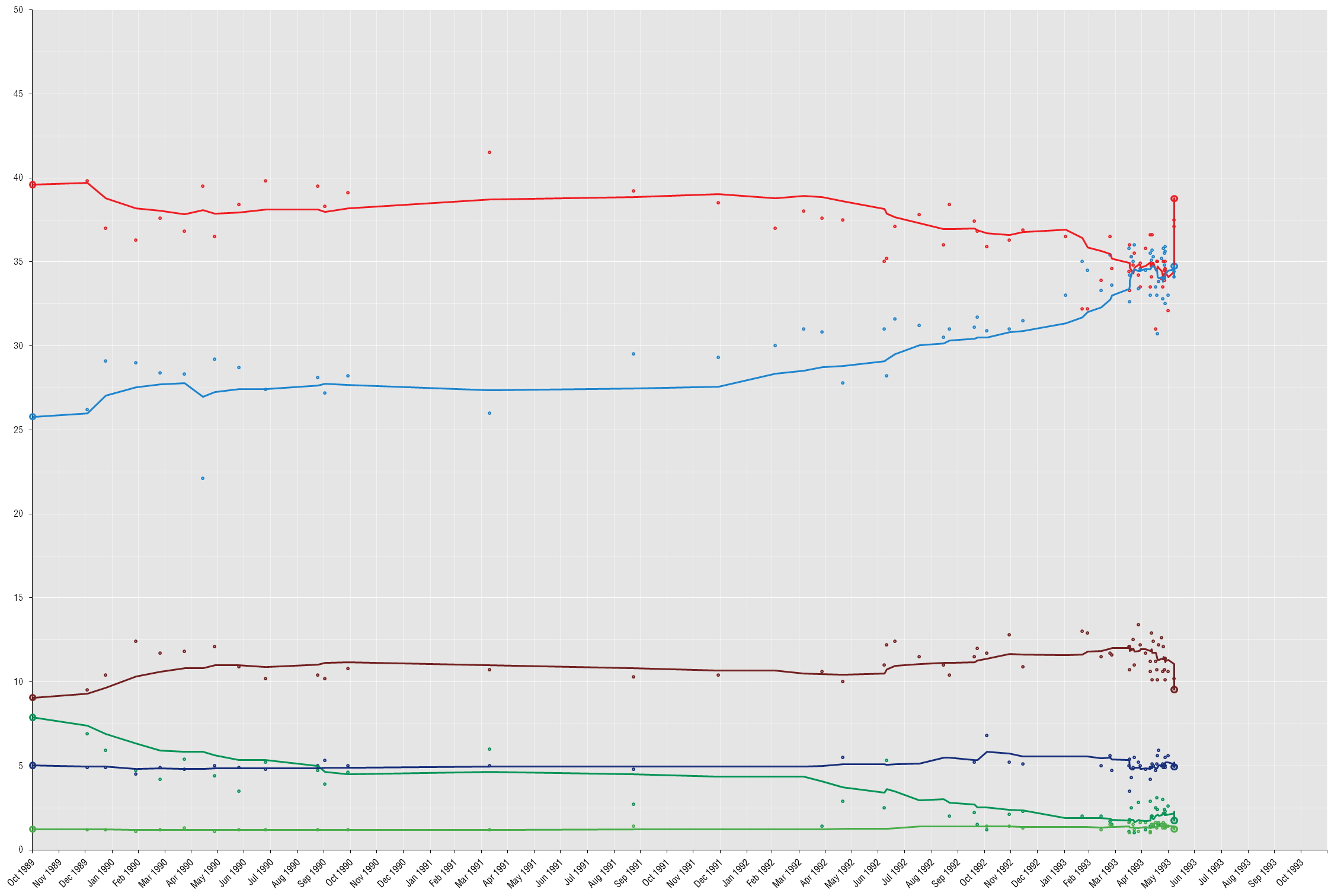 10-point average trend line of poll results from 29 October 1989 to 6 June 1993, with each line corresponding to a political party. PSOE PP IU CDS CiU PNV